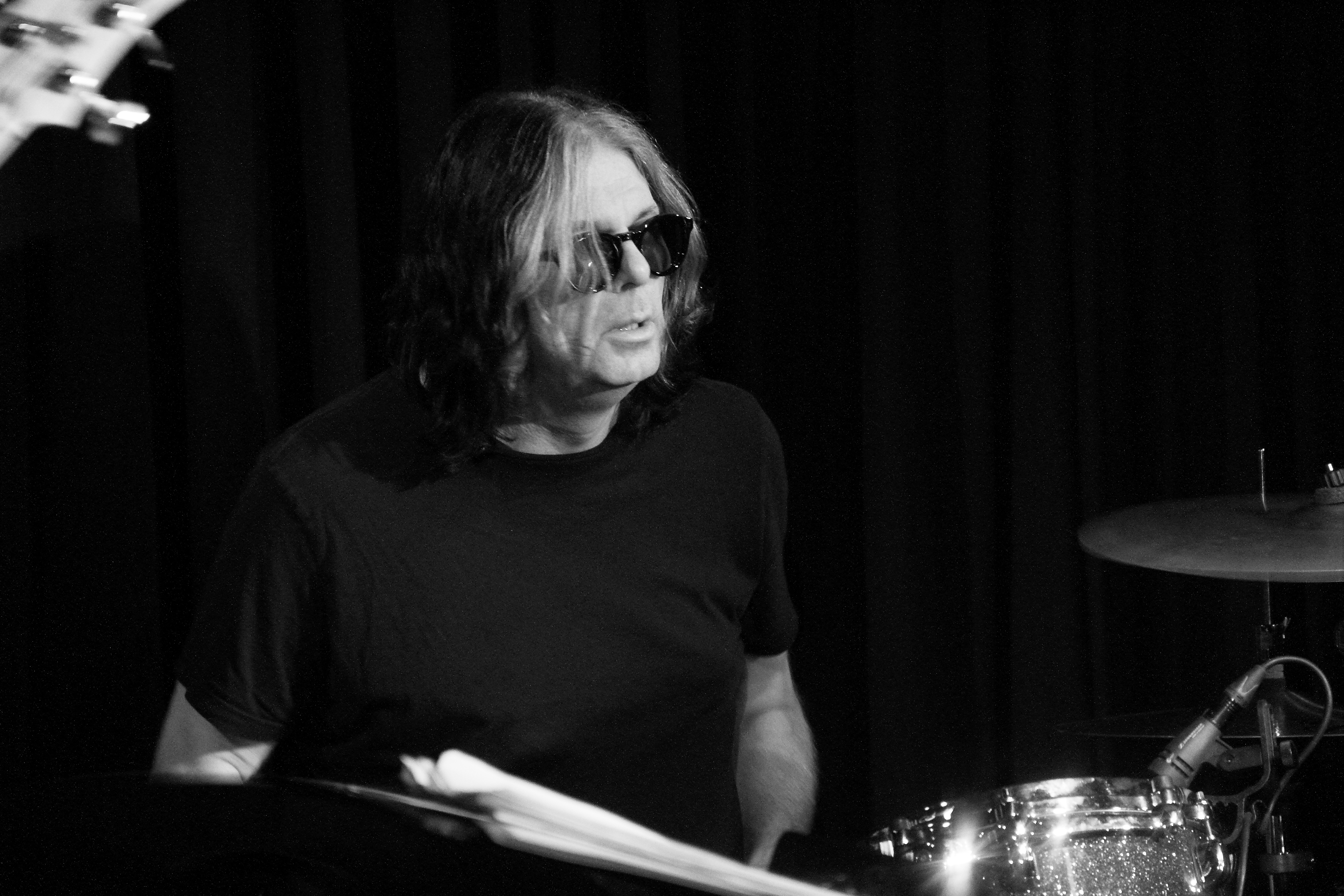 Lydia Lunch Retrovirus are Lydia Lunch (voc), Weasel Walter (g), Tim Dahl (b) and Bob Bert (dr). Here in concert at Club W71, Weikersheim in 2017.